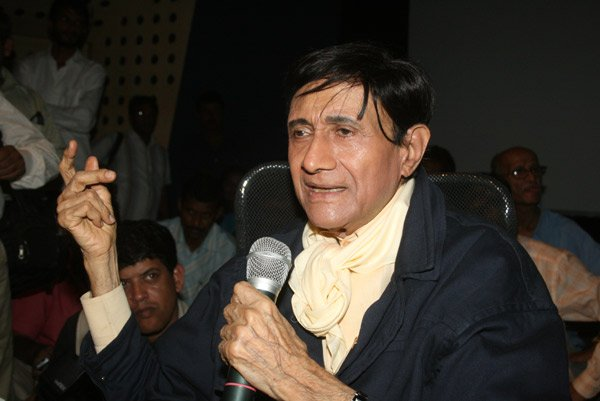 Press conference by Prime Minister Manmohan Singh to announce the release of Dev Anand's autobiography Romancing with Life